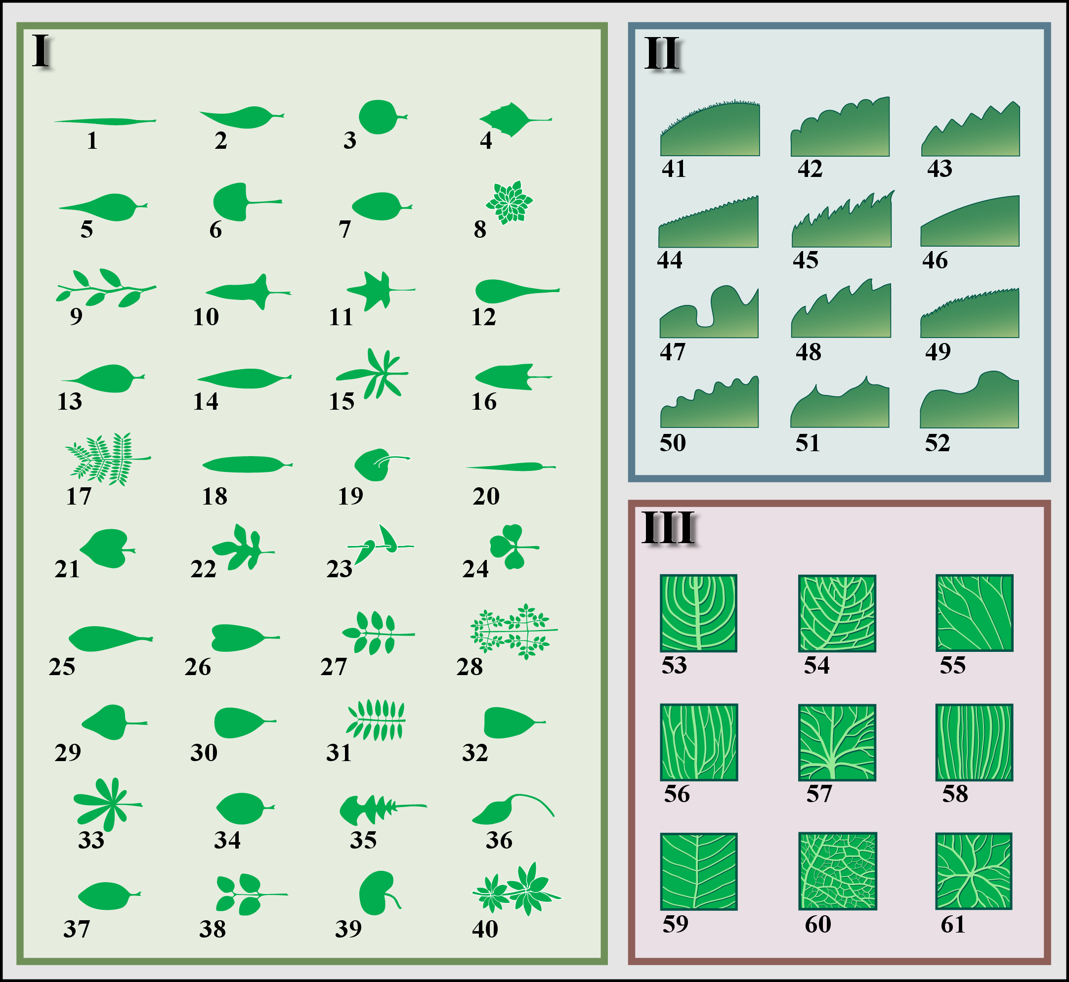 Numbered version of Leaf Morphology chart, for multiple language usage